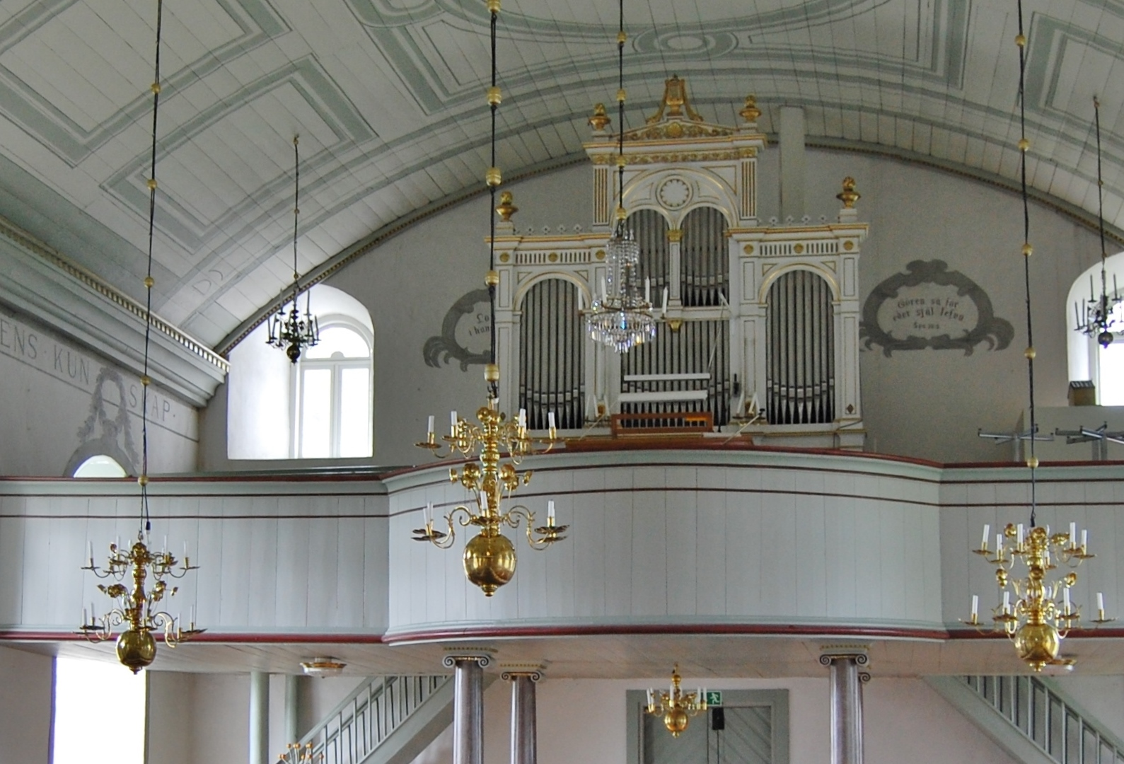 Stenåsa Church.Organ.